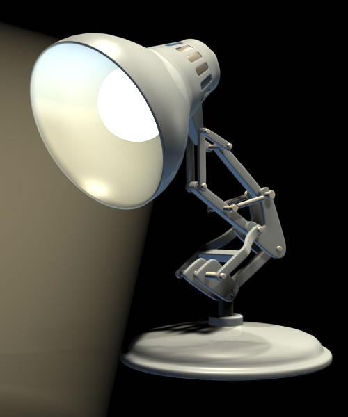 none